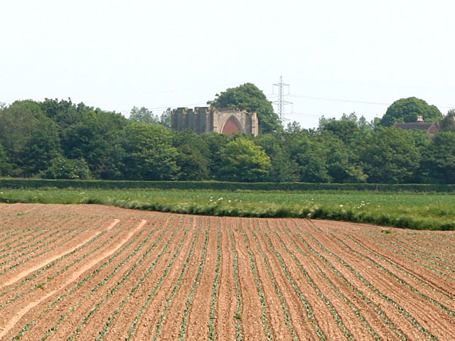 View across fields on Spalding Marsh to the ruin of St Nicholas' Chapel, Wykeham, near Weston, Lincolnshire